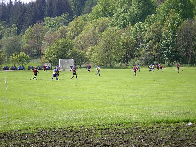 Shinty at Inveraray A shinty match in progress on the pitch which is in the grounds of Inveraray Castle.